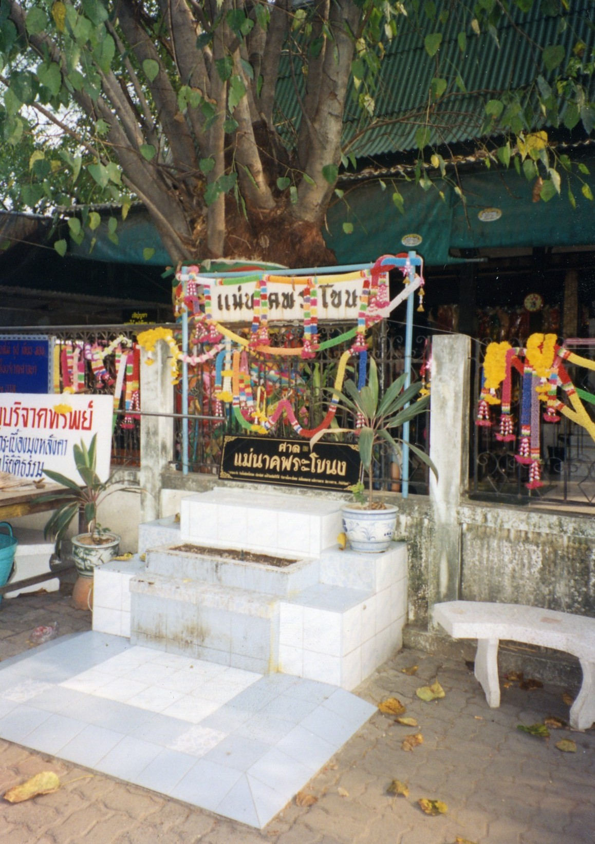 Shrine to "Mae Nak or แม่นาก / Nang Nak or นางนาก",who is a legendary women of bankokian folklore.